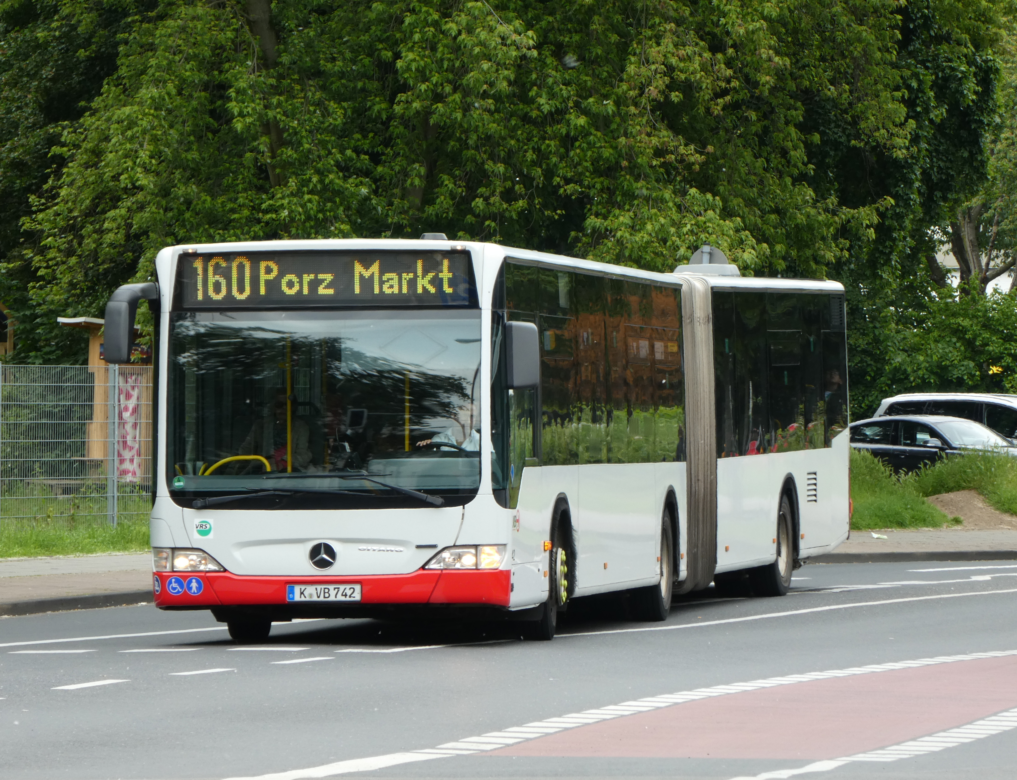 Mercedes-Benz O 530 G (Citaro Facelift) in Cologne